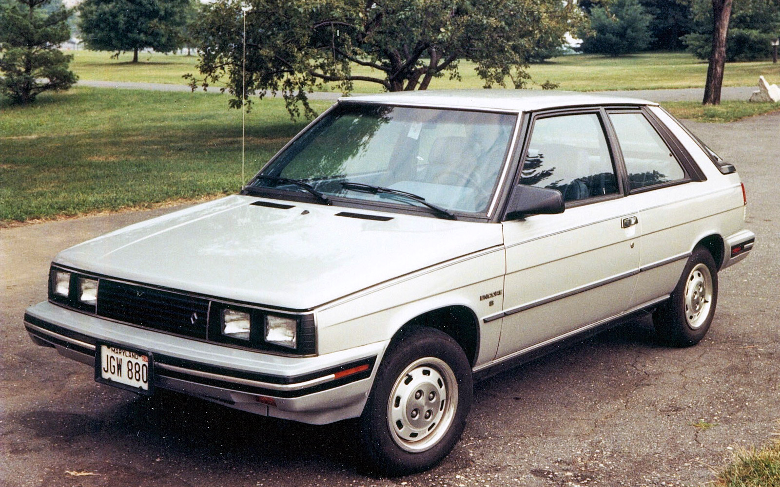 The 1.7 L fuel injection (EFI) engine with 5-speed transmission was introduced in 1985 as optional on all versions except the base car. It developed 96 pound-feet (130 N·m) of torque at 3000 rpm and 77.5 hp (58 kW; 79 PS) at 5000 rpm. How Motor Trend made the Renault Alliance (sedan version) "Car of the Year" in 1983 I will never know. Their endorsement of the car was the reason I brought the Encore in 1985. I remember pulling up to an identical Encore in 1986 only to have the other driver roll down the window and say, "My condolences on the car". The car was photographed on Mrs. Dasher's farm in the middle of Columbia, MD which is now a well-developed residential area. The car cost $8400 in 1985.